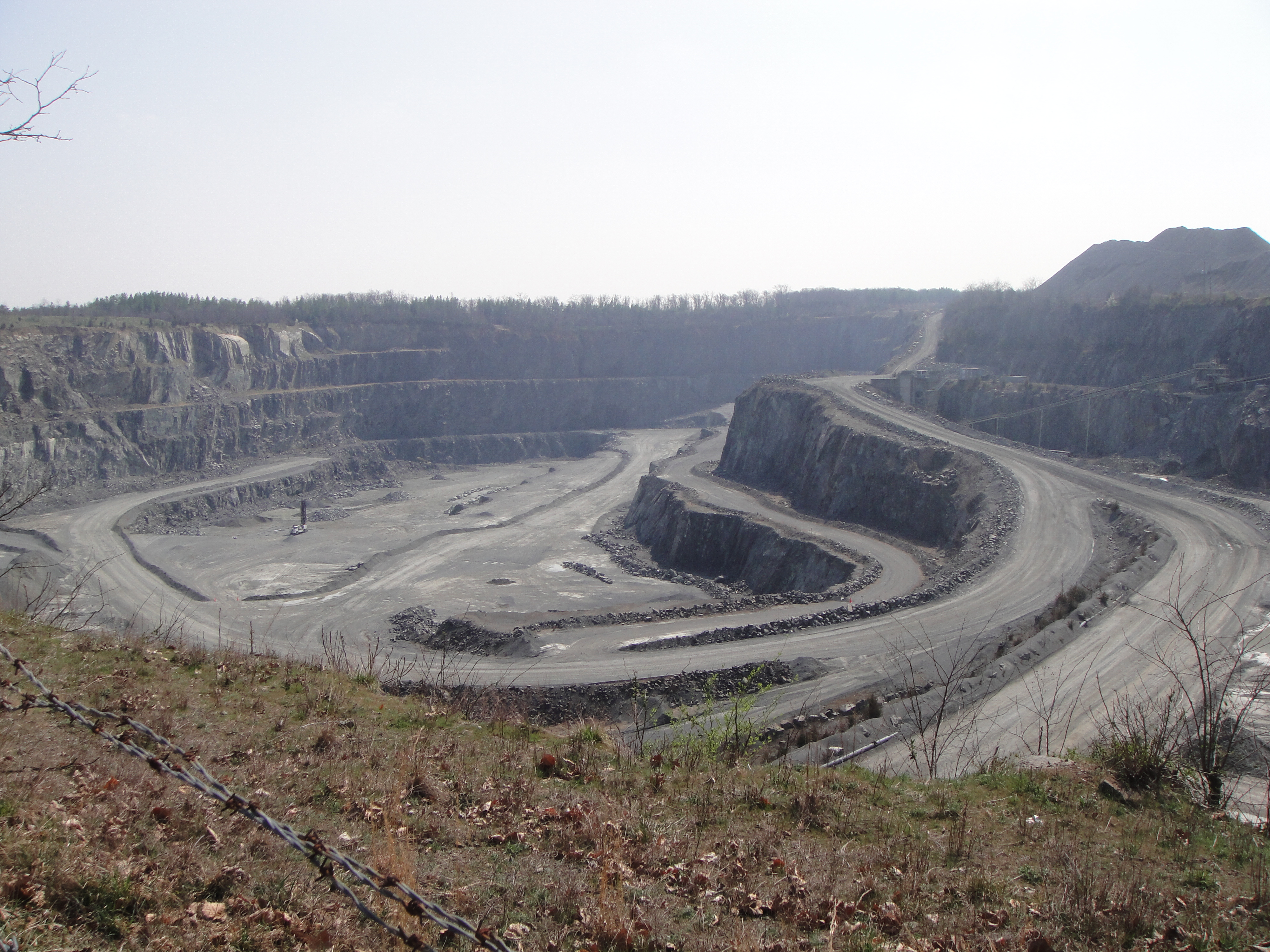 W&OD Trail - An overlook of the Luck Stone Quarry 1